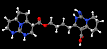 Estructura tridimensional de la batzelladina A